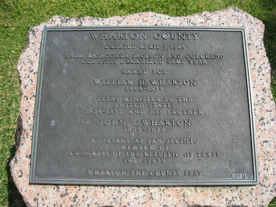 Photo shows an historical marker on the courthouse grounds in Wharton, Texas. The marker states that Wharton County was named after brothers William H. Wharton (1806-1839) and John A. Wharton (1809-1838).